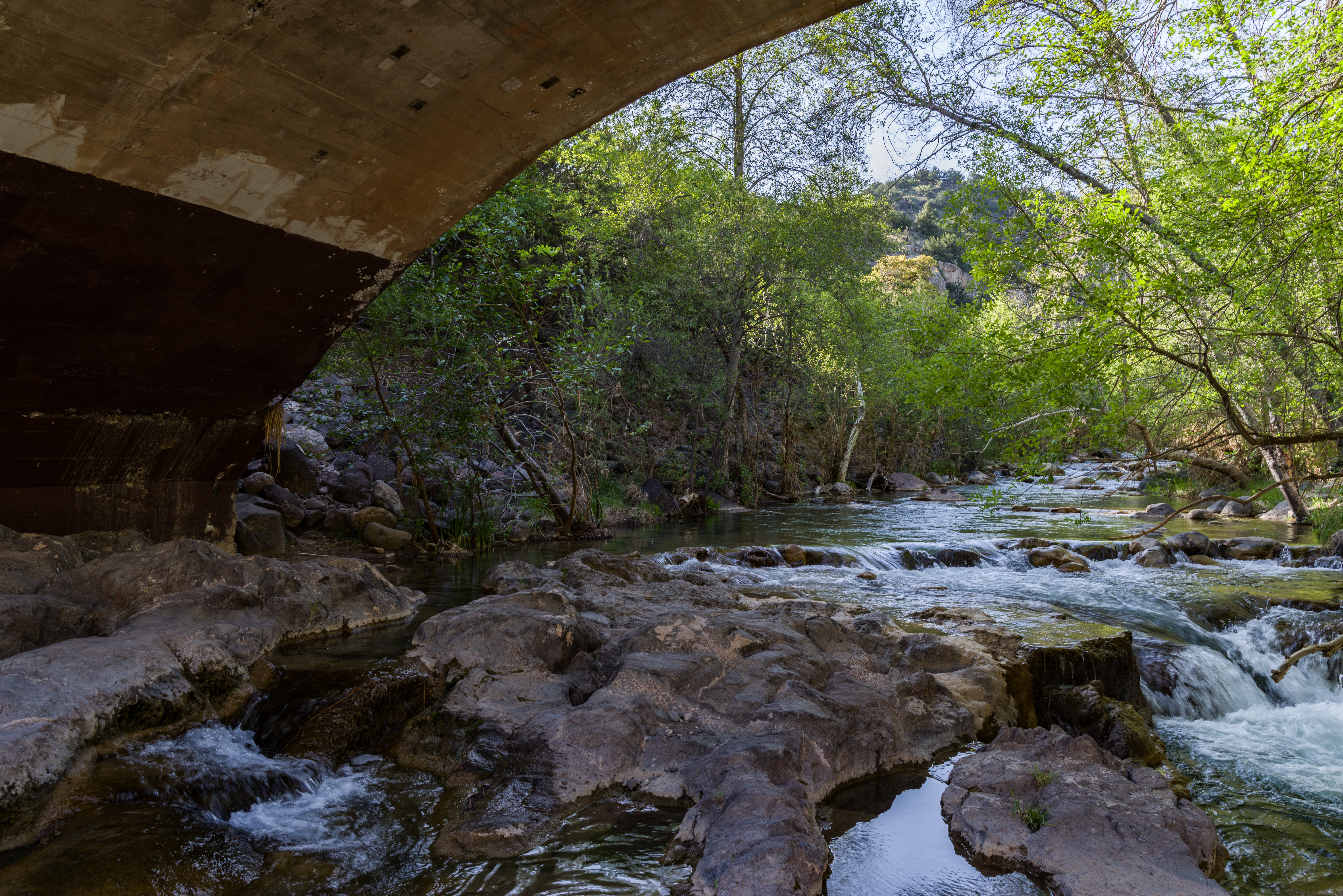 Coconino National Forest - Fossil Creek Bridge